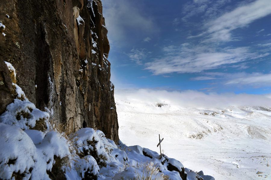 This photo was taken in December of 20122 when I overnighted at the source of the Amazon on the side of Nevado Mismi.